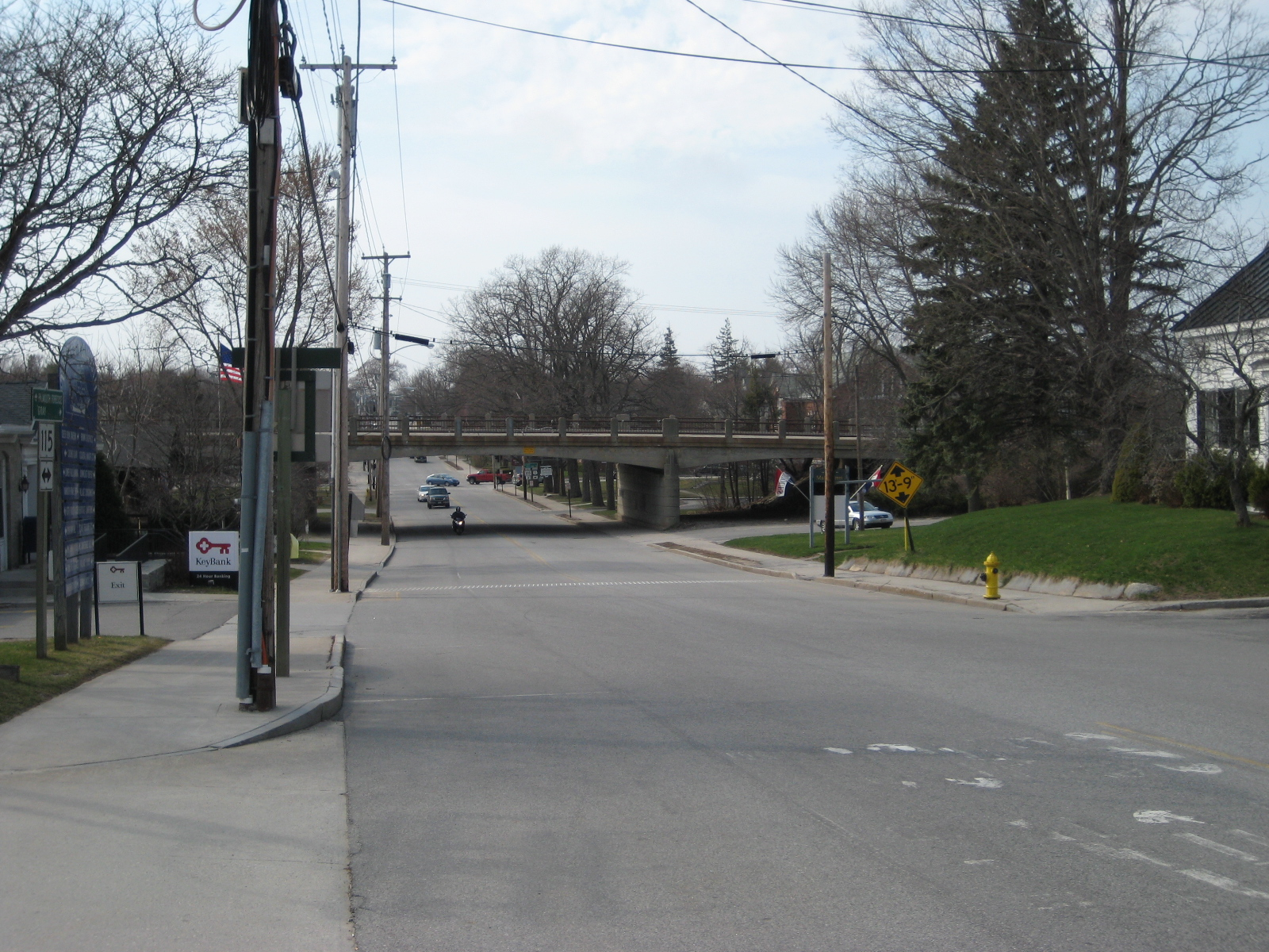 Brickyard Hollow, Yarmouth, Maine